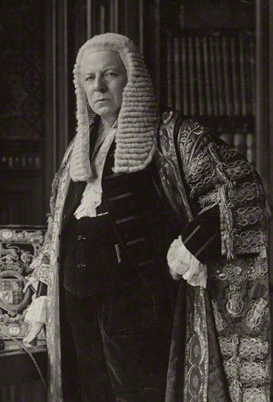 The Viscount Haldane (1856-1928), Lord Chancellor